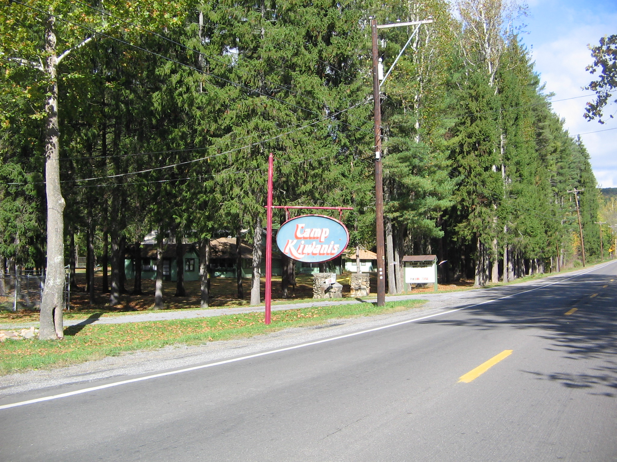 Camp Kiwanis sign and buildings along Pennsylvania Route 287 and Larrys Creek, Mifflin Township, Lycoming County, Pennsylvania, United States